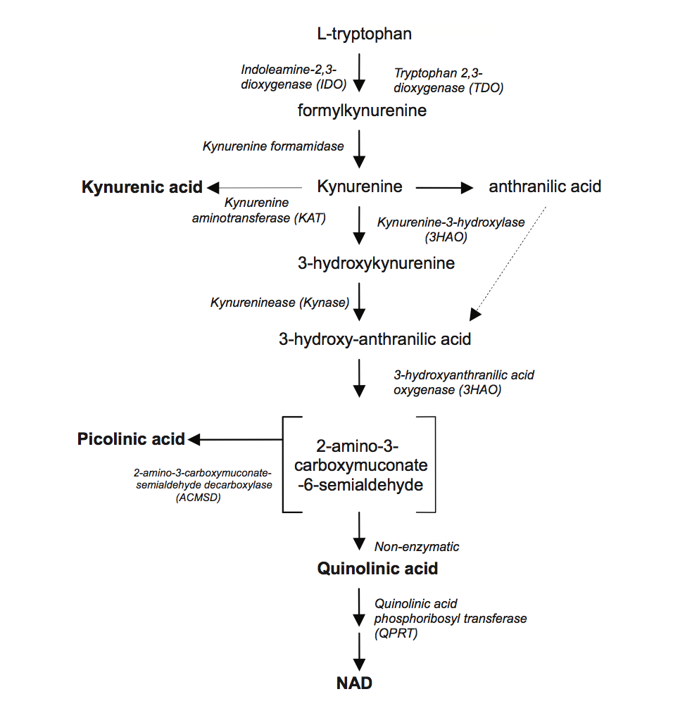 The kynurenine pathway in the CNS